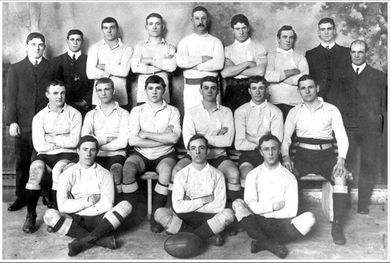 Team shot of the New South Wales rugby league team before their first ever match against the Queensland rugby league team.